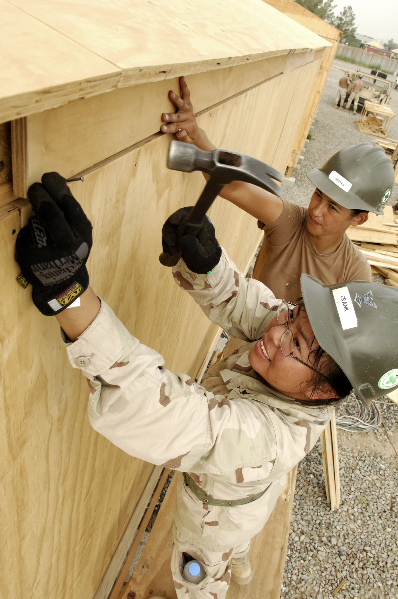 FIRE BASE SALERNO, Afghanistan (June 29, 2008) Builder 3rd Class Merlyna Crank and Builder Constructionman Irene L. Reeves, both assigned to Naval Mobile Construction Battalion (NMCB) 3 Det. 4, place trimming on berthing spaces being built for Afghan military personnel at Fire Base Salerno. The sub-detachment of Seabees is deployed to this area, less than 50 miles from the border of Pakistan in support of International Security Assistance Force. (U.S. Navy photo by Mass Communication Specialist 2nd Class Eli J. Medellin/Released)